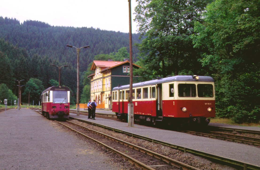 German railbus and tram, wagon number 187 012, in Eisfelder Talmühle station, built by Waggonfabrik Fuchs, a rolling stock manufacturer from Heidelberg, Baden-Württemberg, Germany.